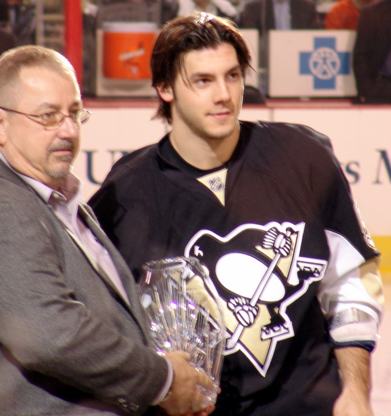 Defenseman Kris Letang is honored as the Pittsburgh Penguins "Rookie of the Year" during a pregame ceremony before a game against the Philadelphia Flyers April 2, 2008 at Mellon Arena in Pittsburgh, PA.